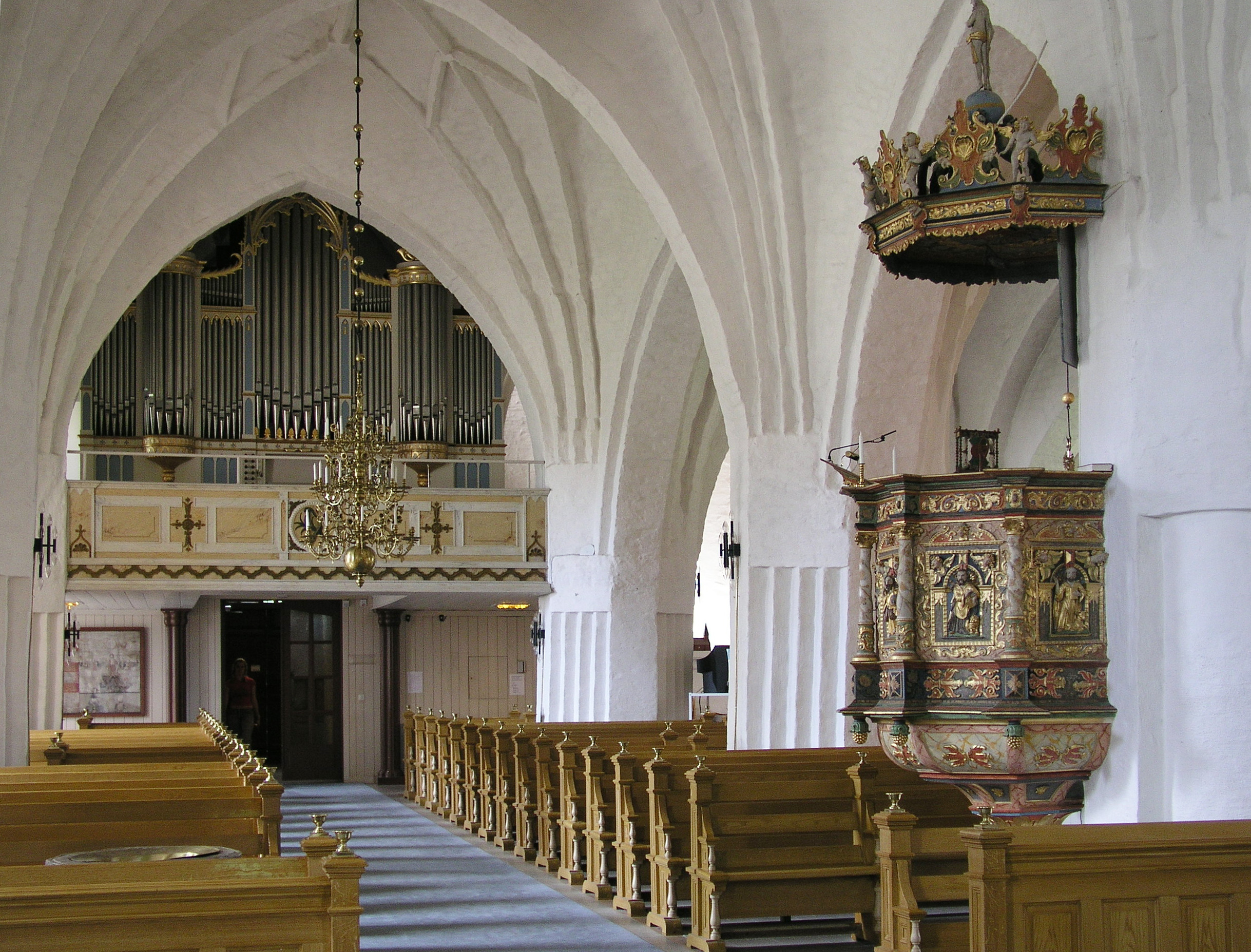 Sankt Laurentii kyrka, Diocese of Linköping, Söderköpings kommun: nave, organ, pulpit